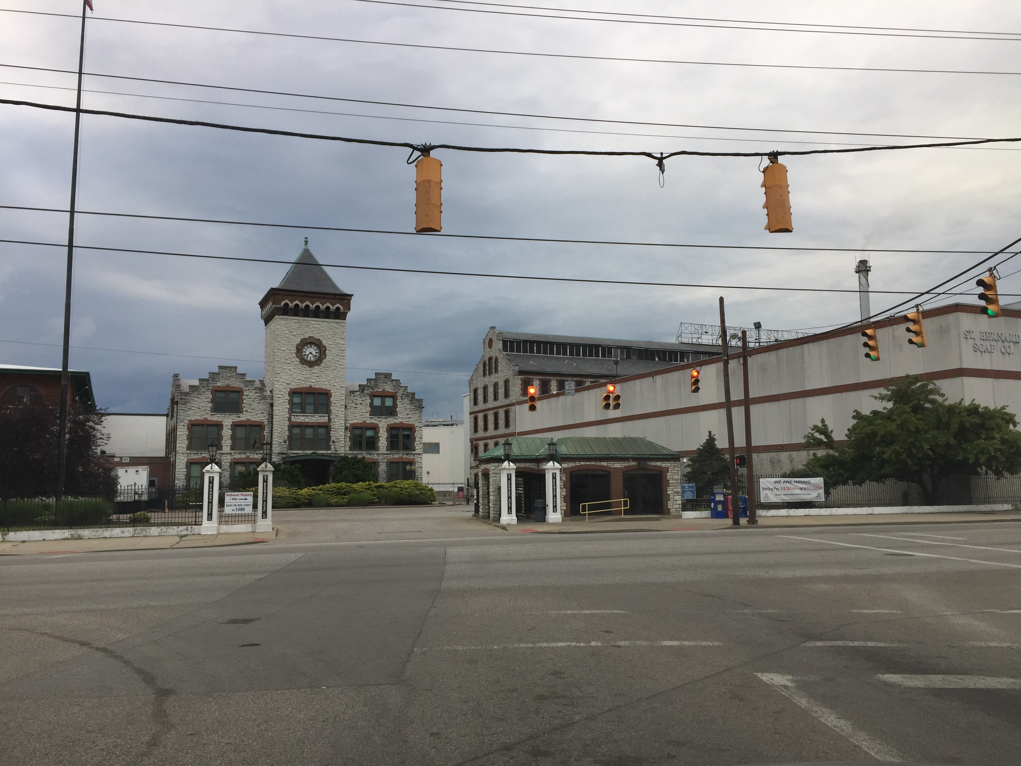 Procter & Gamble's St. Bernard Soap Factory in St. Bernard, Ohio in 2018